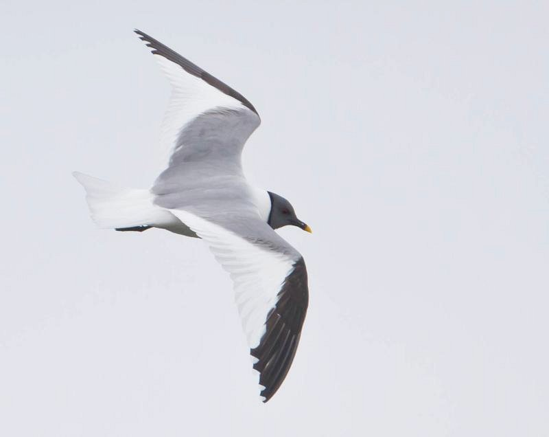 A Sabine's Gull in Iceland.